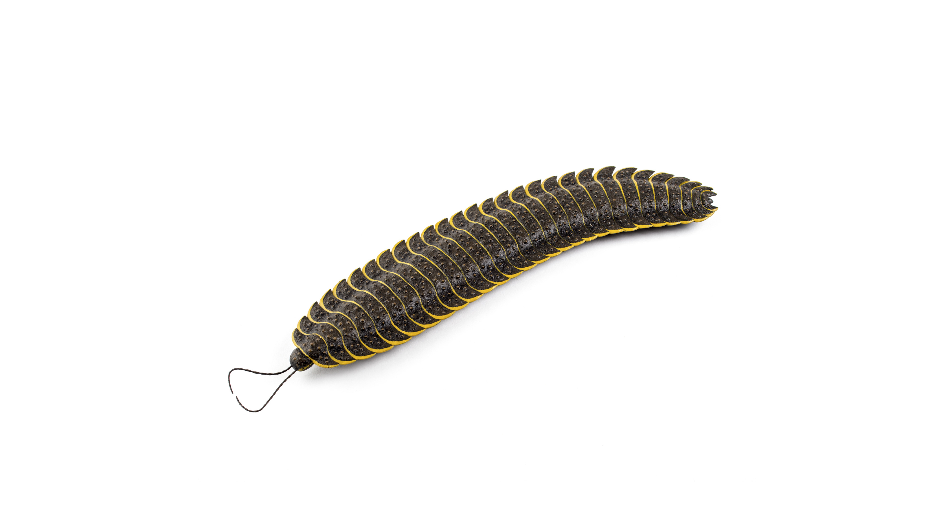 Arthropleura sp. - Reconstruction - 1:3 scale